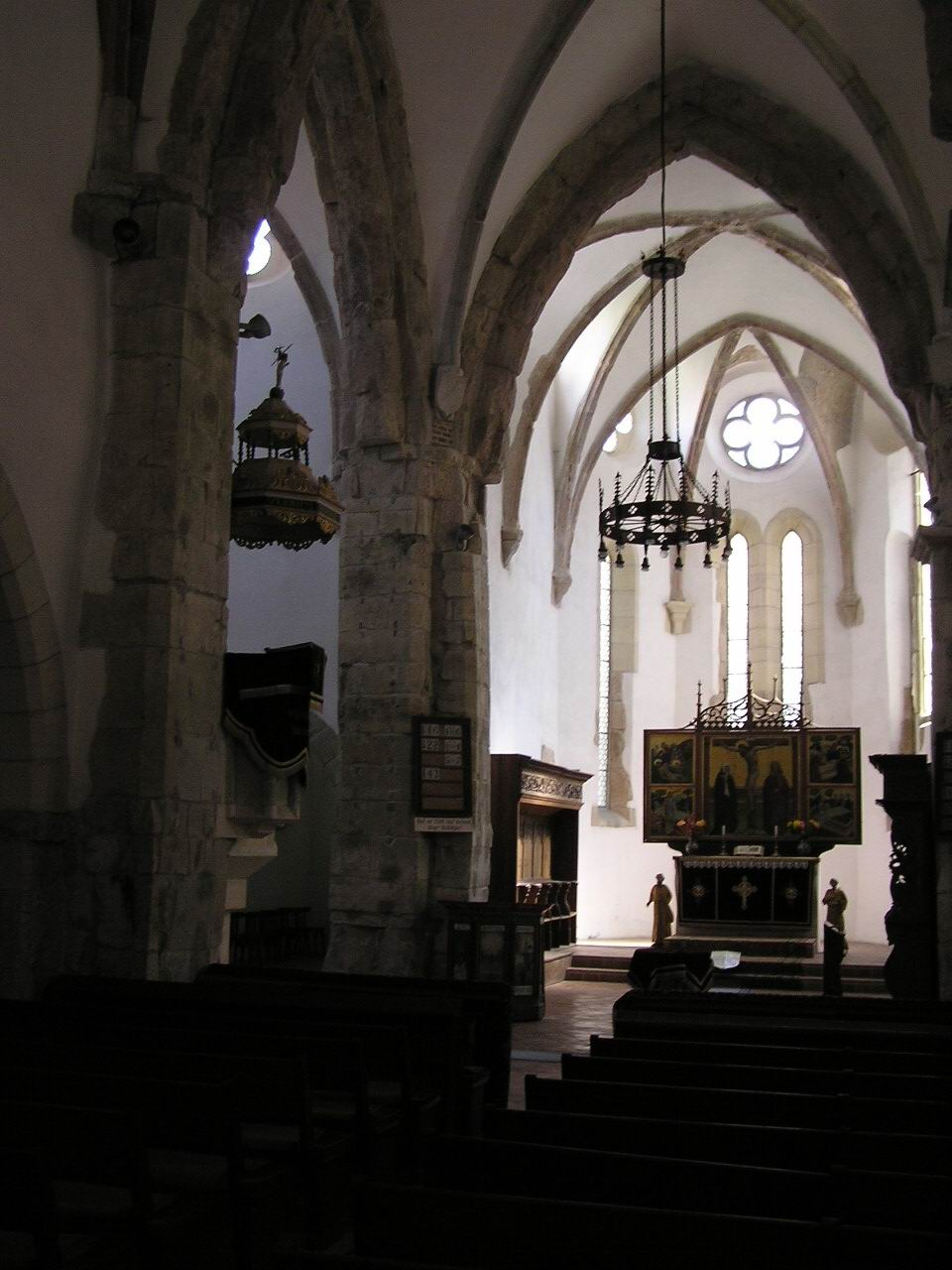 Interior of Prejmer Church